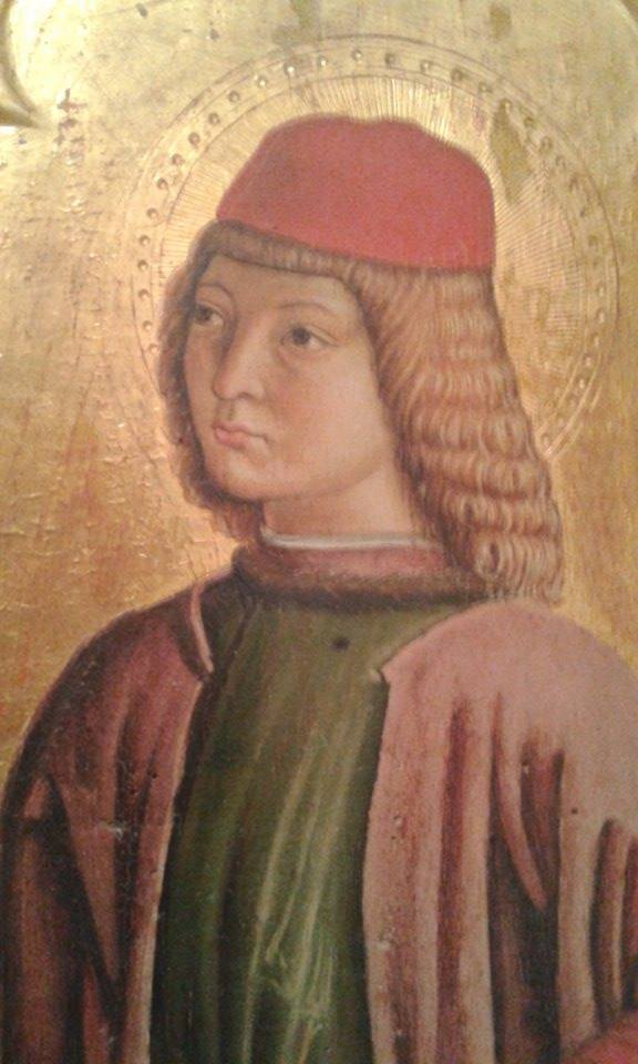 Madonna con il Bambino e i Santi Sebastiano, Fortunato, Severo e Chiara da Montefalco